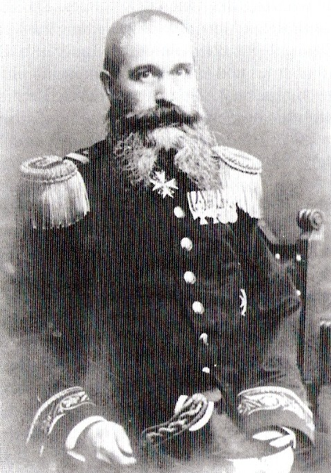 Bernhard von der Heydt (1840-1907), Landrat, Obertaunuskreis, Germany